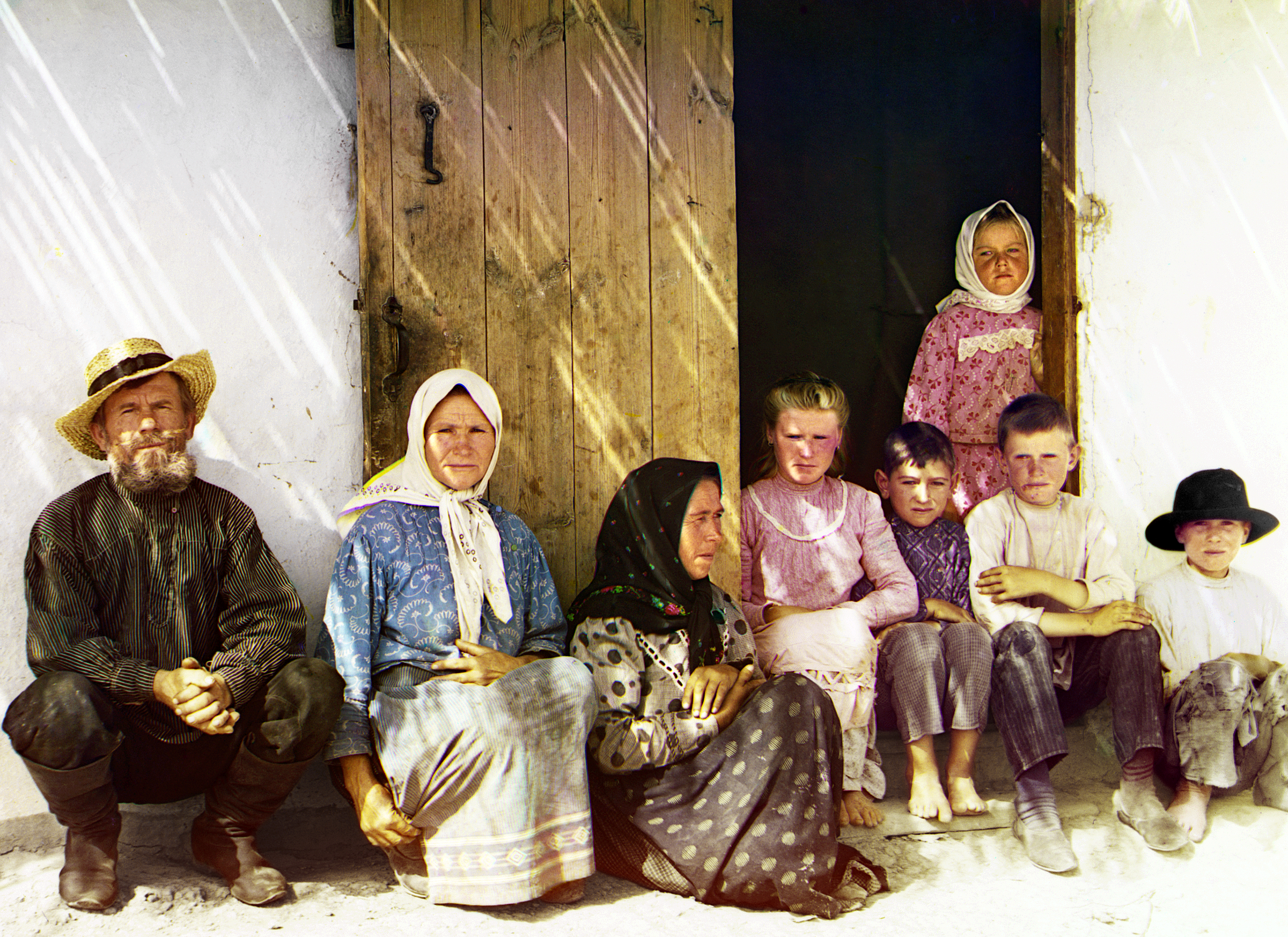 Original Description: Mugan. Settler's family. Settlement of Grafovka. (Russian settlers, possibly Molokans, in the Mugan steppe of Azerbaijan